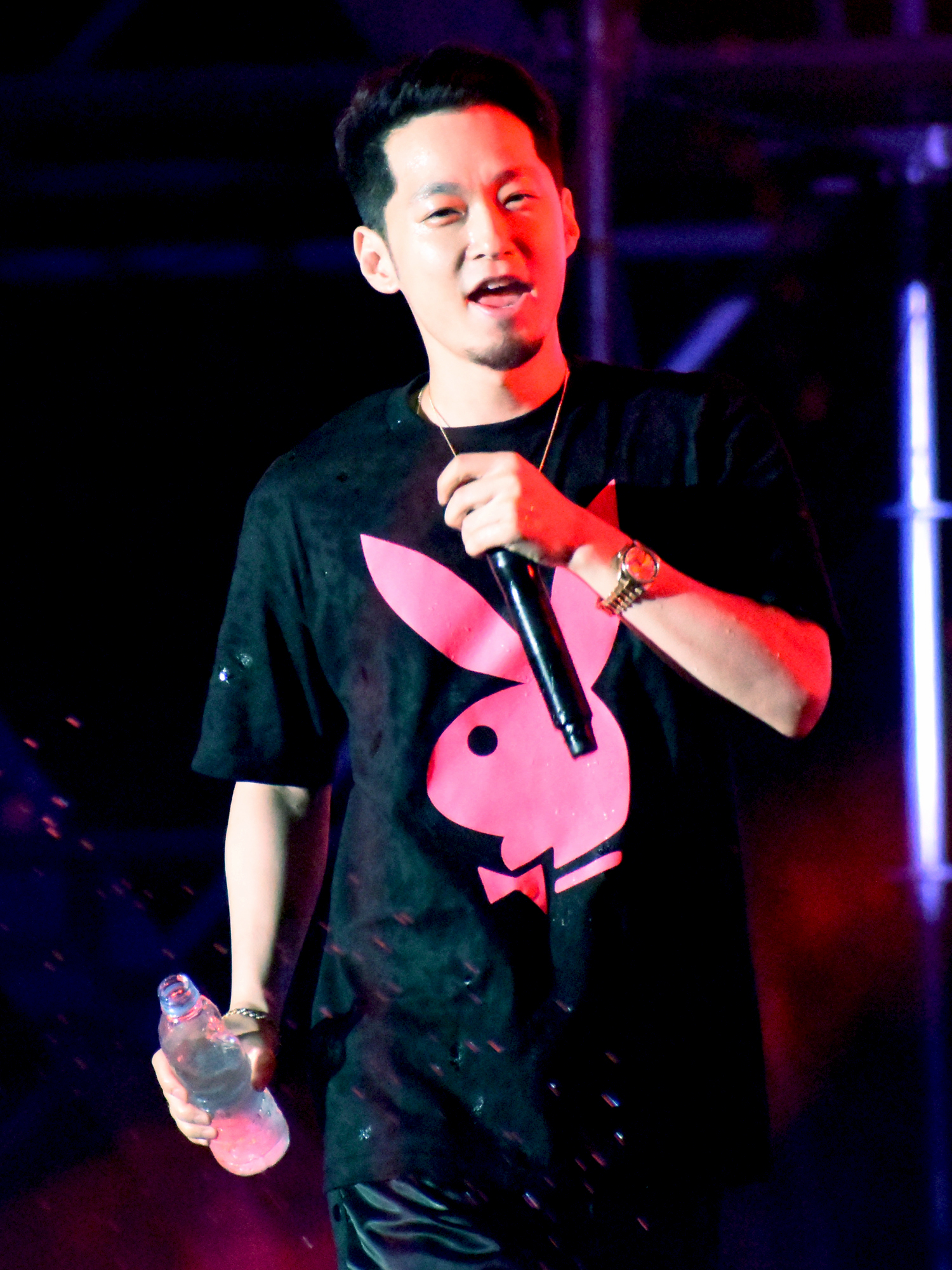 The Quiett at the 23rd Busan Sea Festival in Haeundae on August 1, 2018.